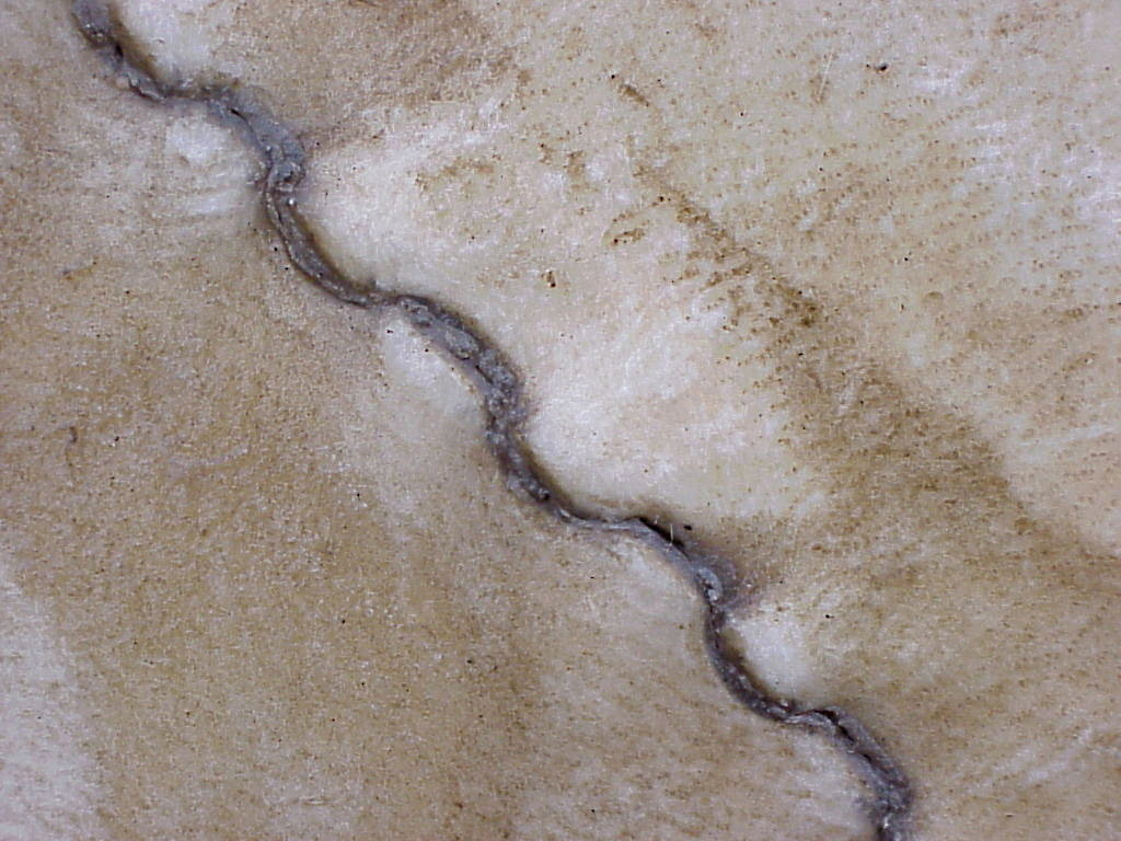 Closeup look at water proof seam on umiaq skin boat in Barrow Alaska